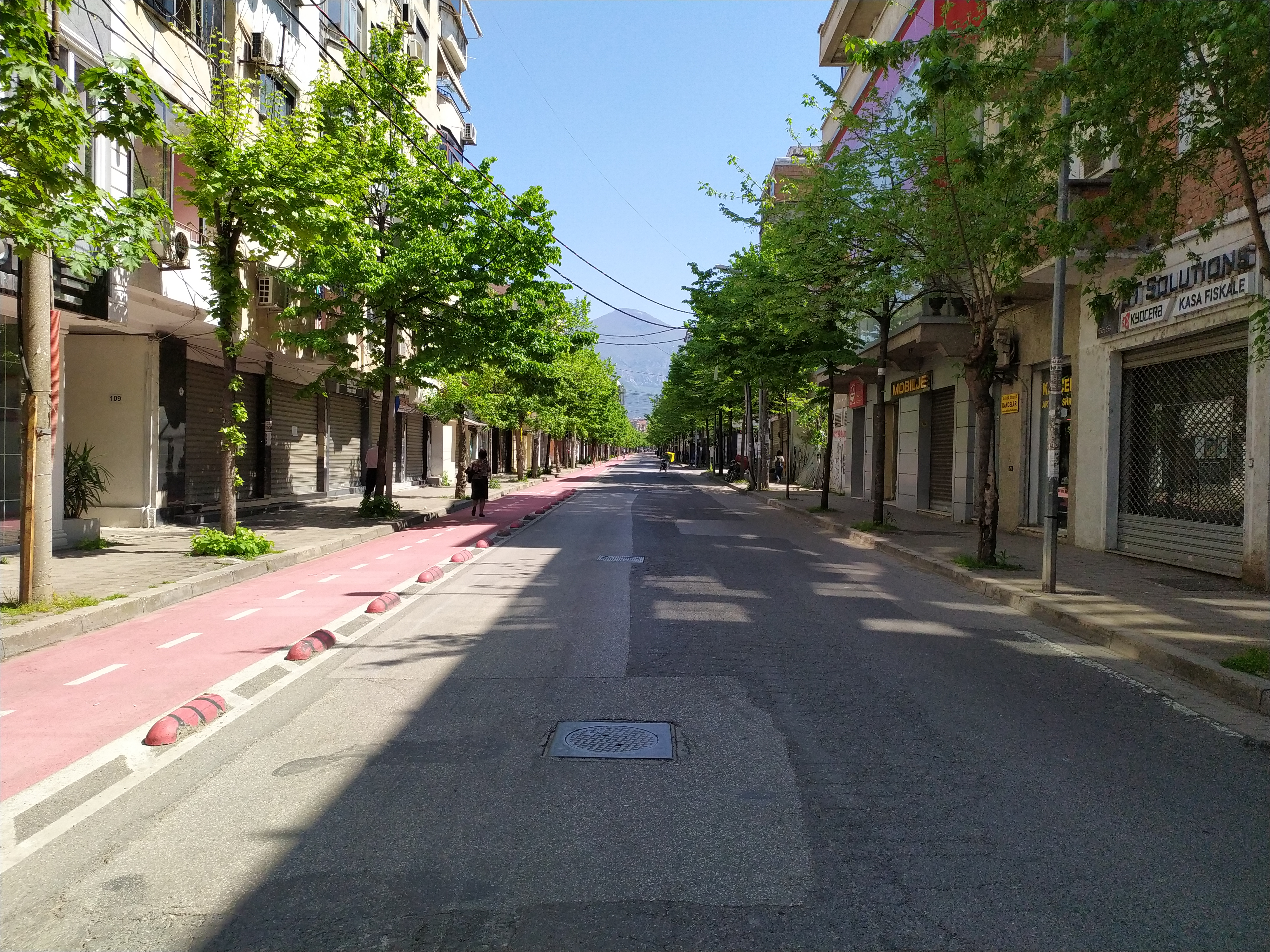 Hoxha Tasim street in the general central area of Tirana during COVID-19